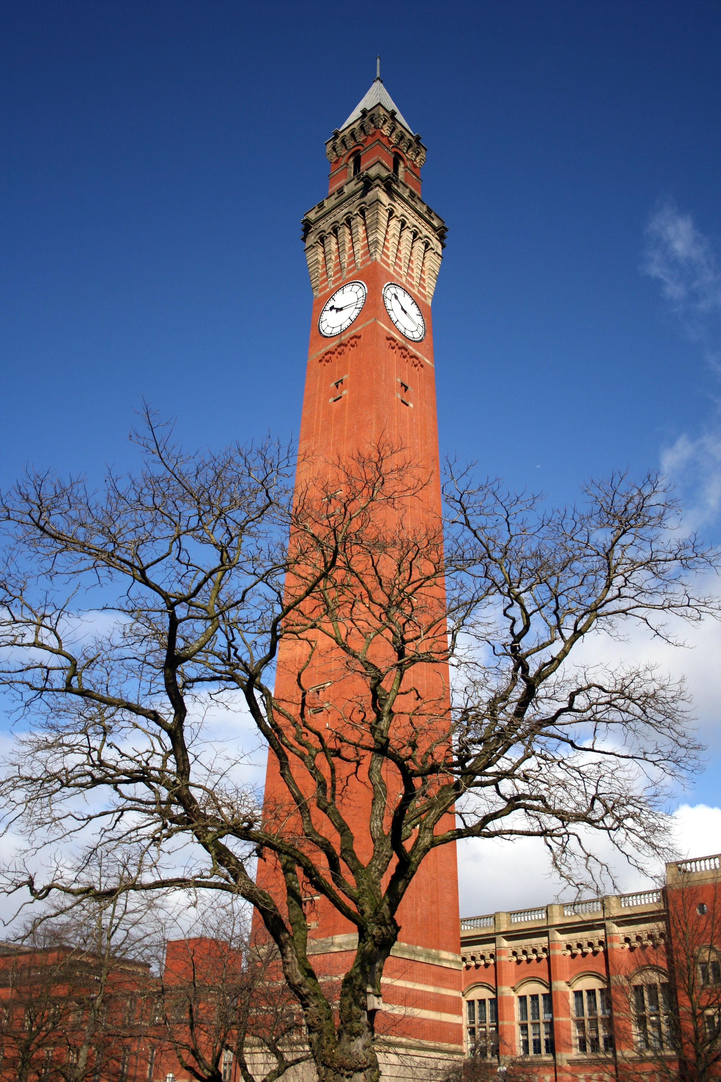 Joseph Chamberlain Memorial Clock Tower, also known as "Old Joe's", in Chancellor's Square, University of Birmingham, Edgbaston, Birmingham, England.